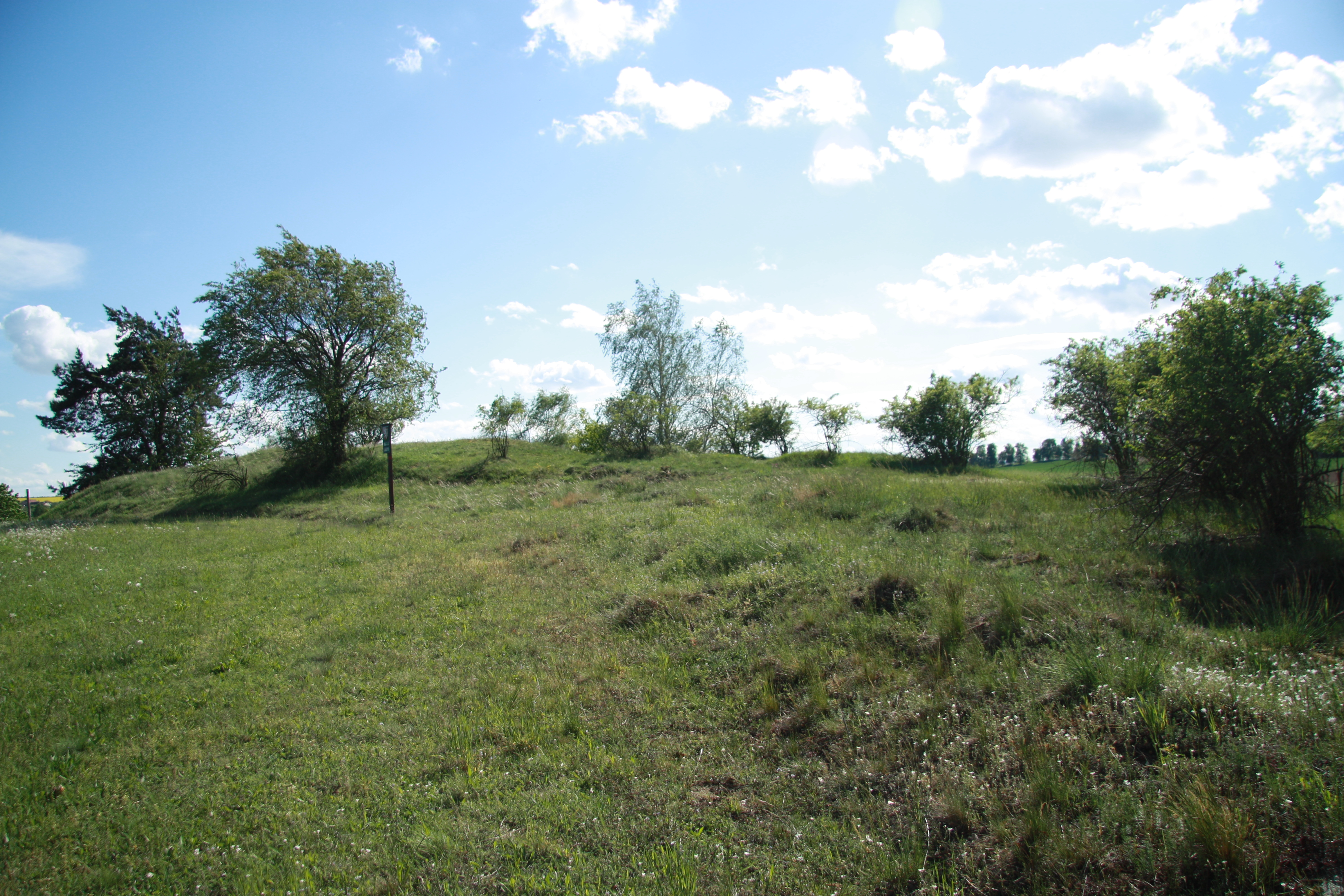 Overview of Špilberk in Ocmanice, Třebíč District.